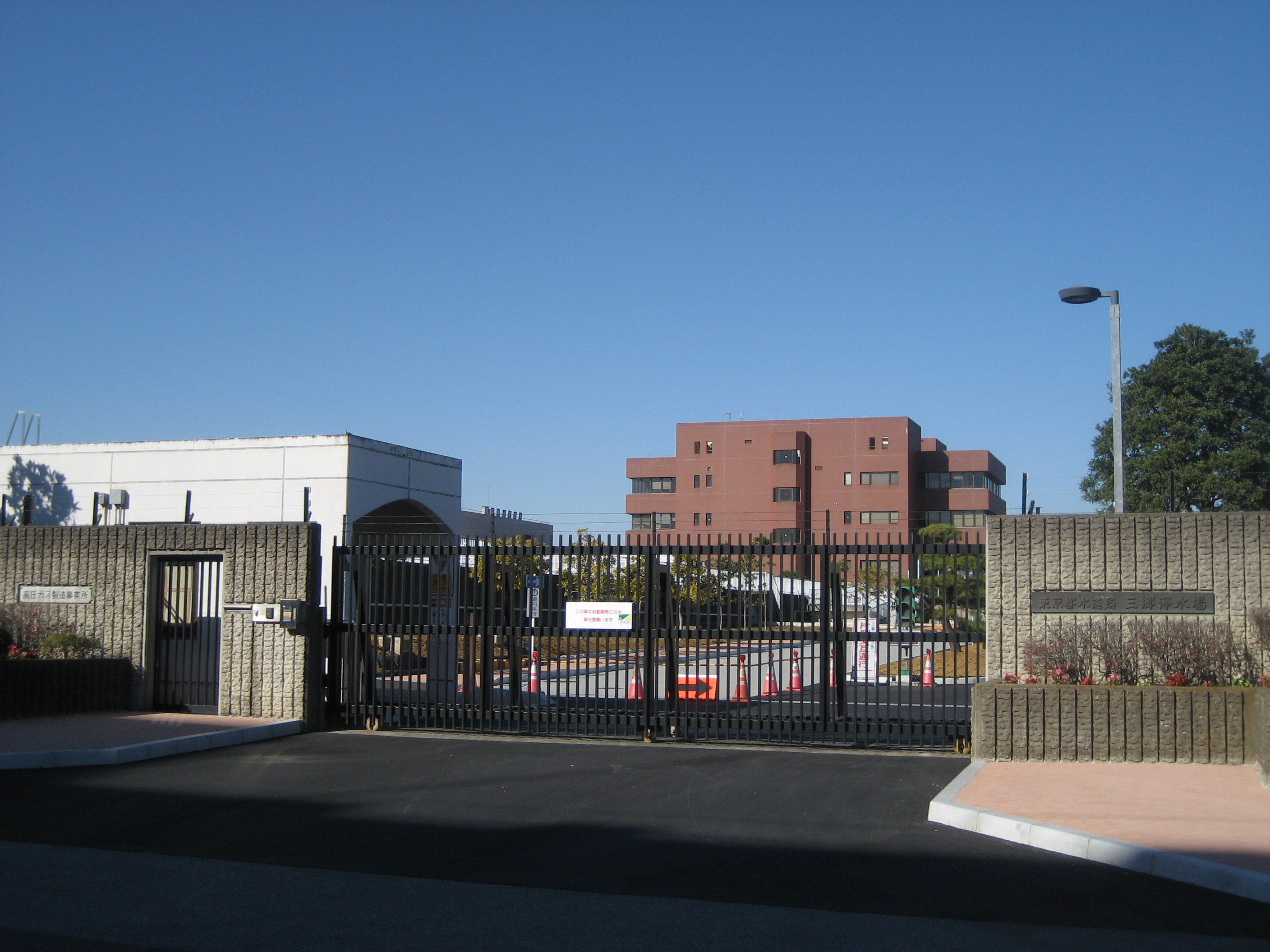 Misato Water Purification Plant